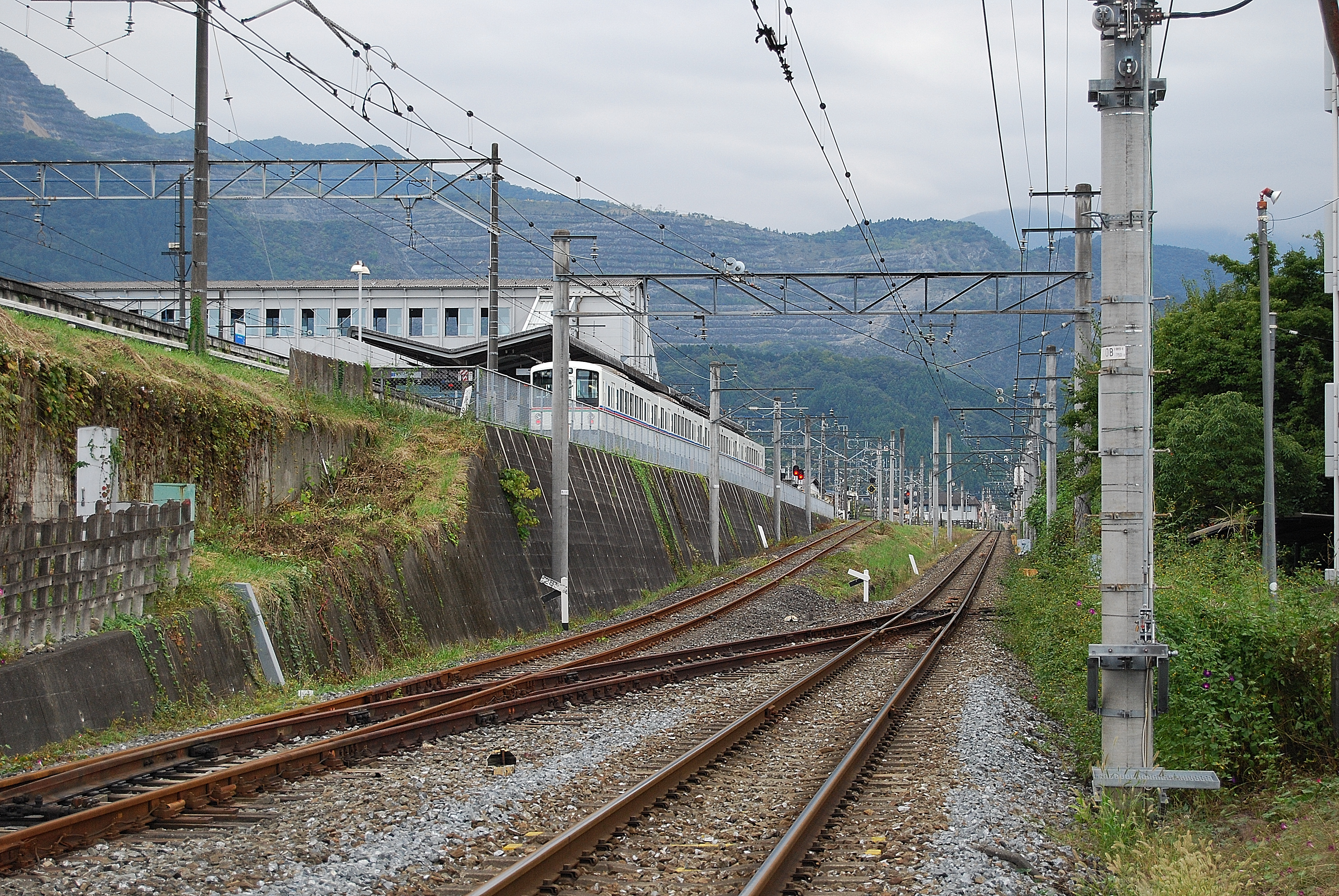 Seibu-Chichibu Station viewed from a level crossing on the Chichibu Main Line south of Ohanabatake Station, with a Seibu 4000 series train visible